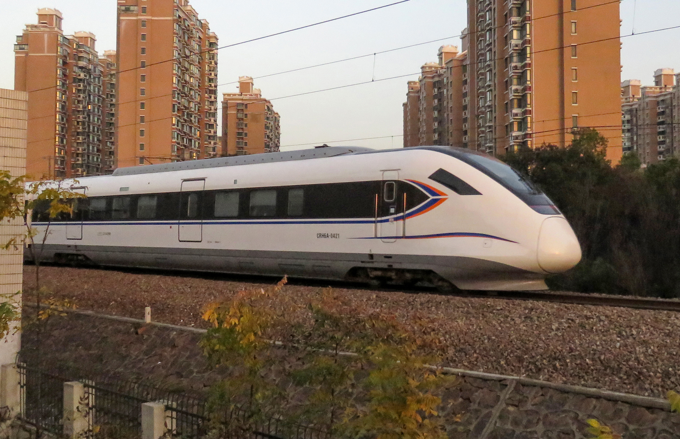 C3666 from Jinshanwei, maybe. One may enter a dilemma when spotting at Lianhua Road Station: emphasizing on SM or CR. Because of this, I ran several laps on the platform (to Fujin Road), and went sweaty.